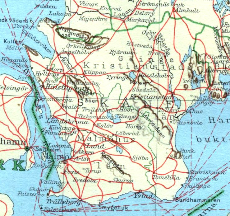 Map of Skåne, southern Sweden, in 1930, showing railroads in red.